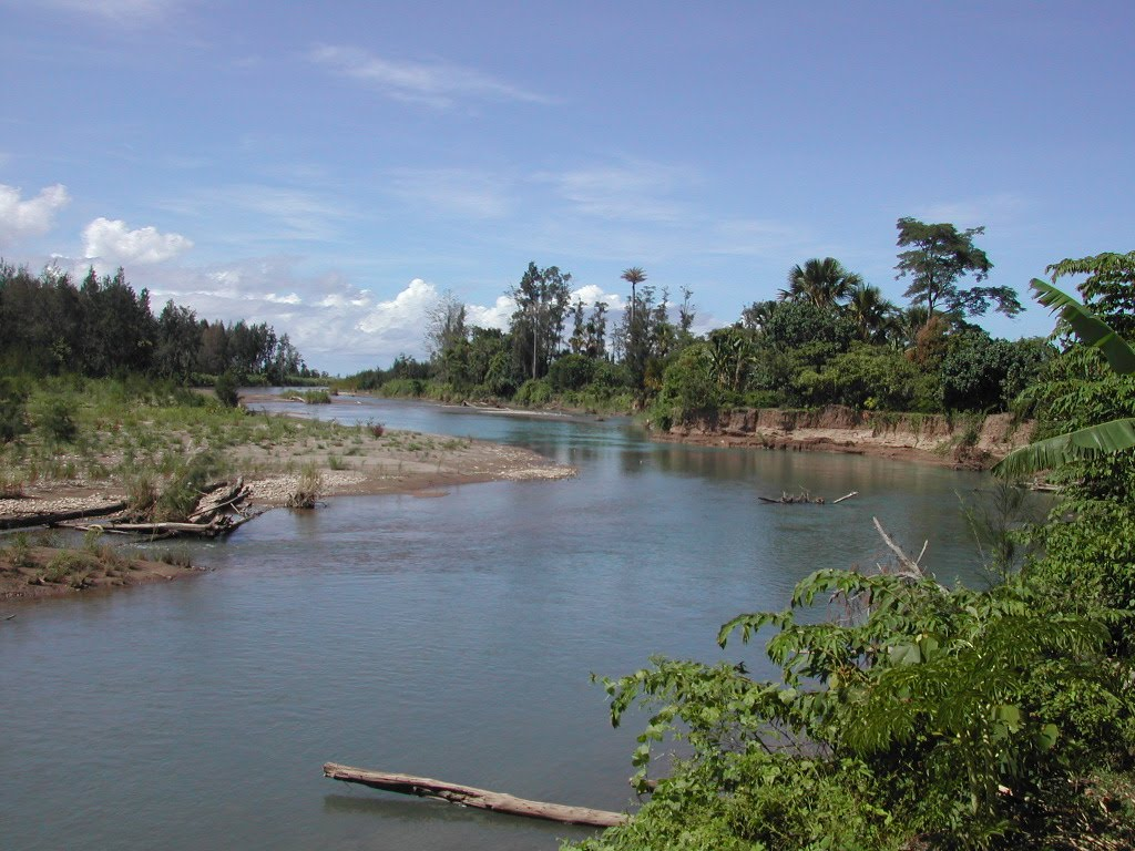 Irabere River, a major crocodile infested river on south coast delimiting western edge of Lautem District, Timor-Leste